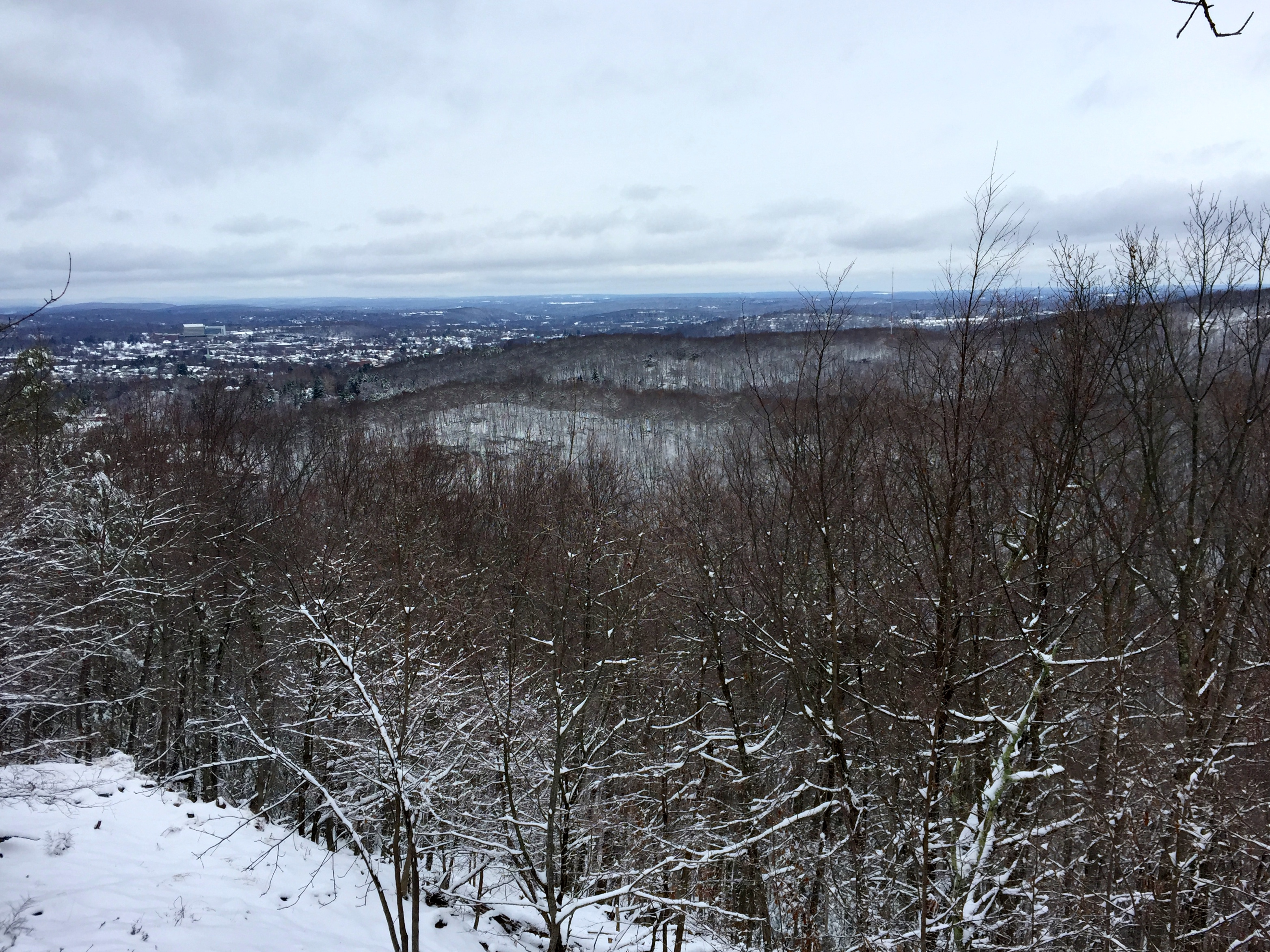 View from Thomas Mountain